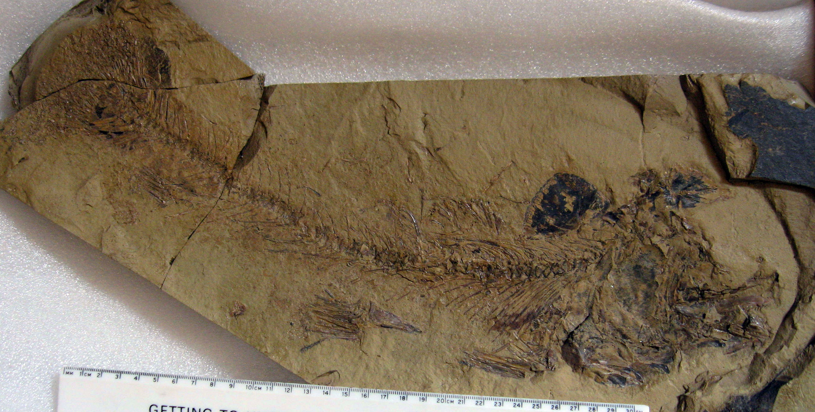 A 17 inch specimen of Eosalmo (species unknown). Found in 2000 at the Stonerose Interpretive Center by Chris Marlinga. Eocene, 49.5 million years old, Klondike Mountain Formation, Republic, Ferry County, Washington, USA.